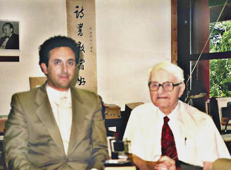 E. Saad Tobis with J. Needham in Cambridge 1988